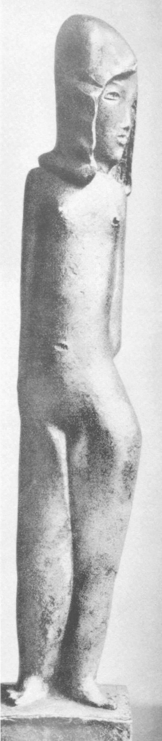 "Stehendes Mädchen, Plastik von Otto Baum, Werkverzeichnis Nr. 49 B, Bronze, Höhe: ca. 65 cm, 1930, zerstört. Otto Baum (1900–1977) DescriptionGerman sculptor and university teacherDate of birth/death 22 January 1900 22 January 1977 Location of birth/death Leonberg Esslingen am NeckarWork location Italy (1929); Paris (1936); Stuttgart (1936–1945) Authority control : Q71230 VIAF: 10650044 ISNI: 0000 0000 6675 0315 ULAN: 500047613 LCCN: no00103821 Open Library: OL797028A WorldCat creator QS:P170,Q71230 "